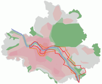 Overview of the Dresden Elbe valley, a cultural landscape and former world heritage site